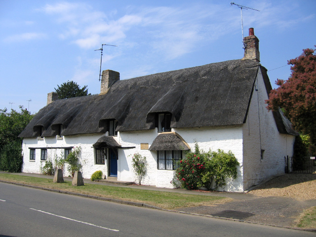 John Clare's birthplace, Helpston, Peterborough. The poet Clare was born in the thatched cottage situated in Woodgate in 1793 and lived there during his period of literary success in the 1820s. The cottage was bought by the John Clare Education & Environment Trust in 2005 and is restoring the cottage to its 18th century state.